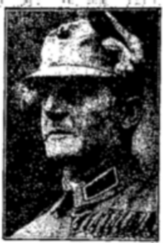 Emil Fey (1886-1938), Austrian politician